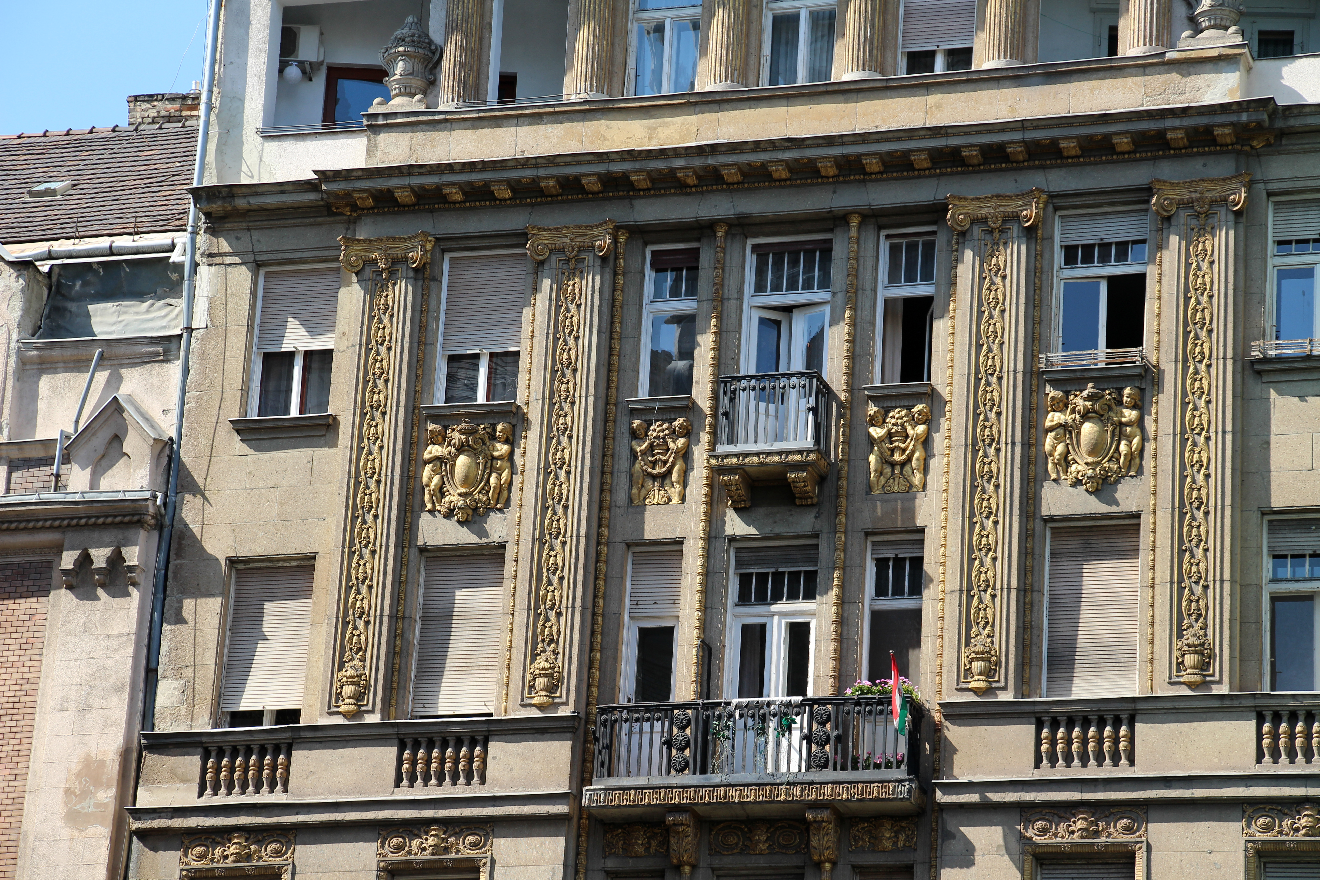 Belváros - Ferenciek tere Hungarian secession.